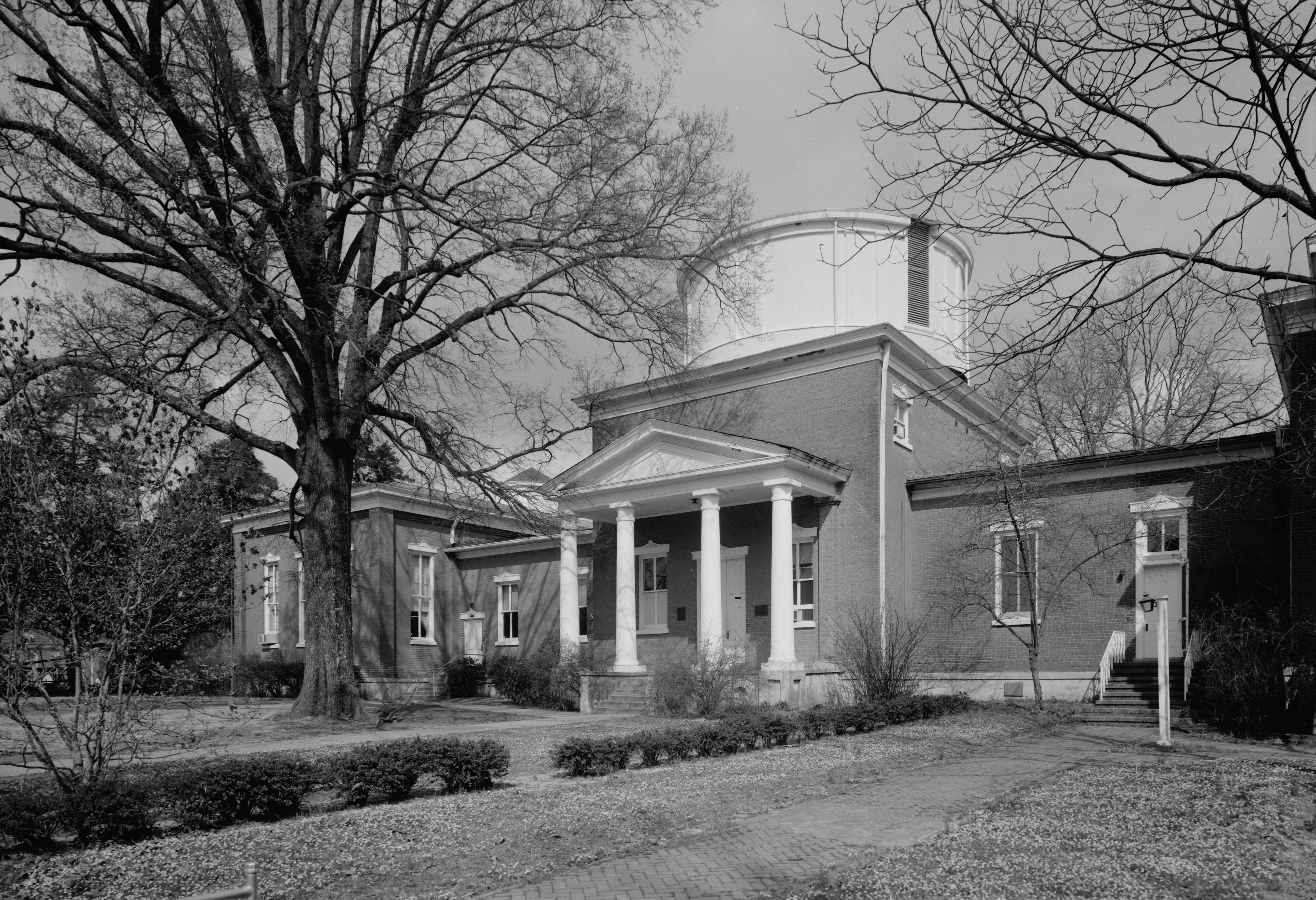 Front of the Barnard Observatory, located on the campus of the University of Mississippi in Oxford, Mississippi, United States. Built in 1859, it is listed on the National Register of Historic Places.